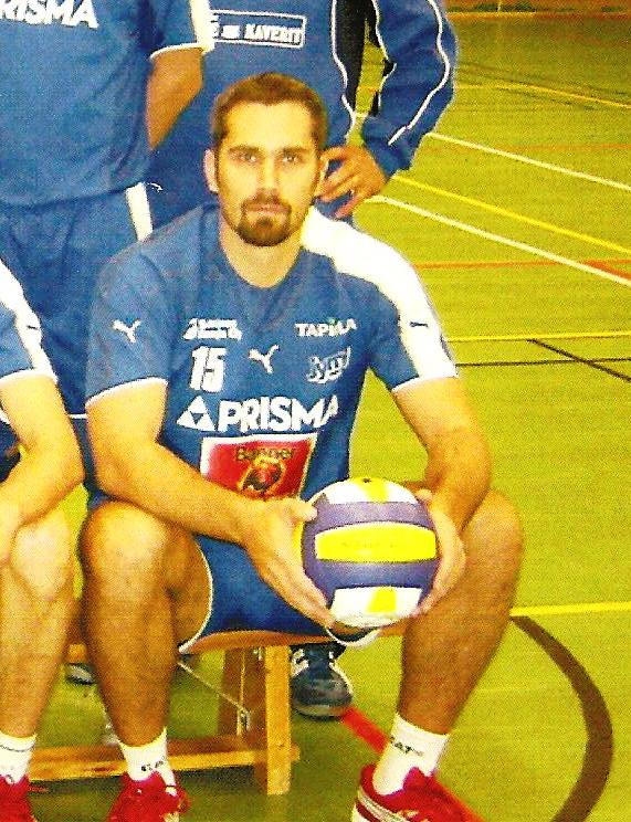 Finland volleyball player Jani Pykäri.